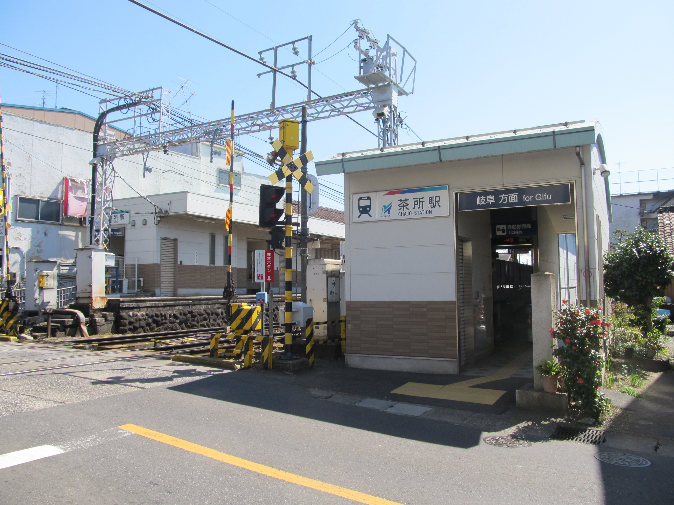 Nagoya Railroad Nagoya Main Line Chajo Station Building